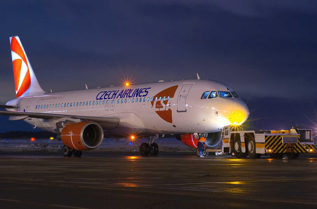 CSA - Czech Airlines Airbus A320-214 OK-GEA